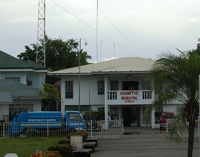 Municipal hall of Hamtic, Antique, Philippines.